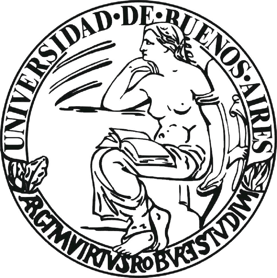 Seal of the Buenos Aires University.